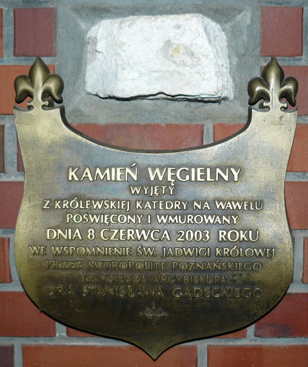 Jadwiga Church - Poznan, Umultowo Distr.